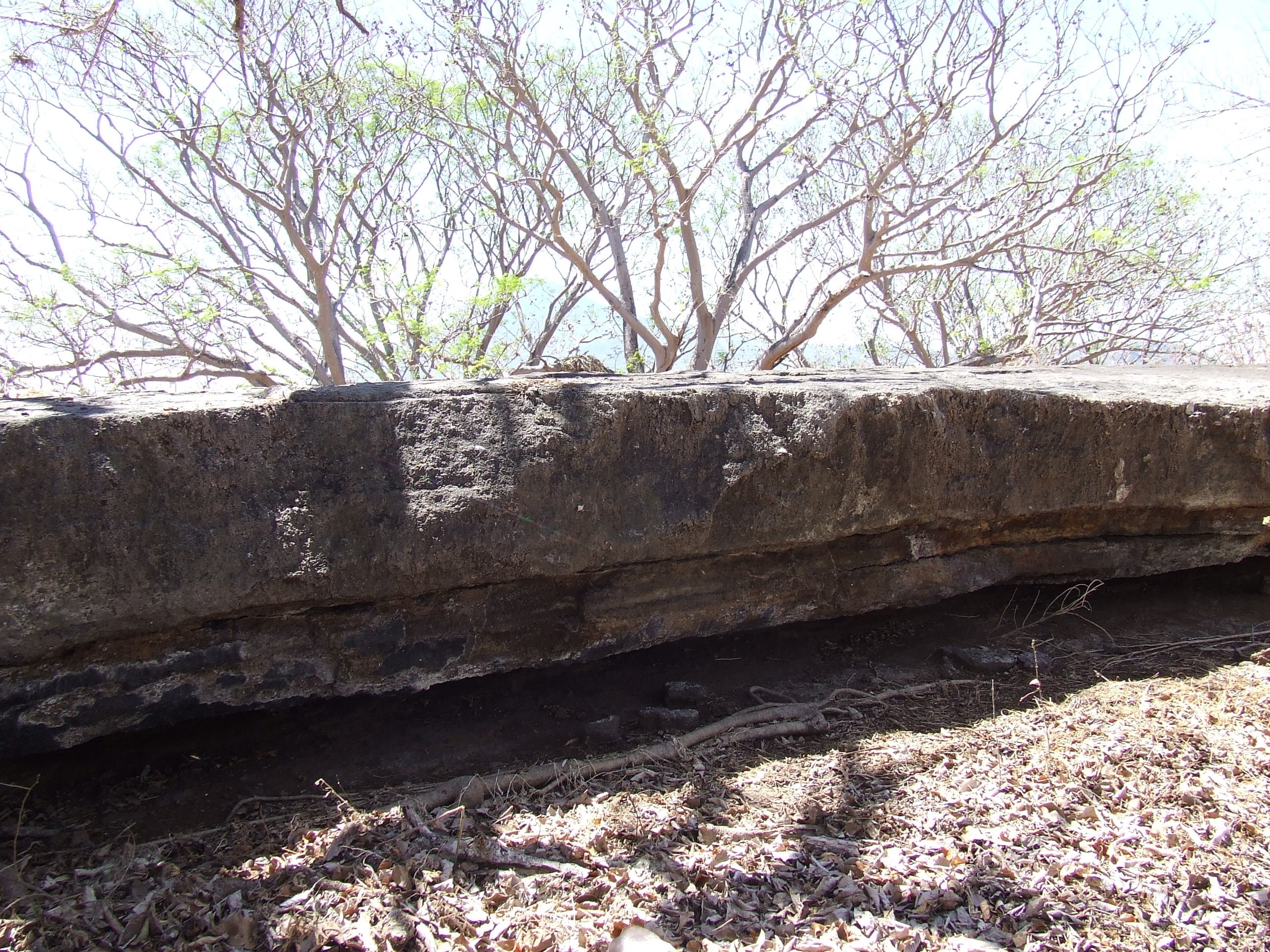 Plazoleta Isla El Muerto, voladizo de la roca, Nicaragua